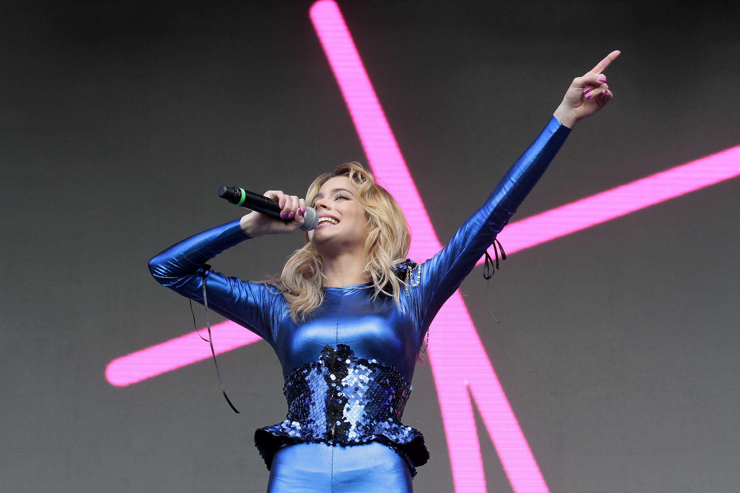 Martina Stoessel performing on May 2, 2014 during the free concert "Juntada Tinista" in Buenos Aires.